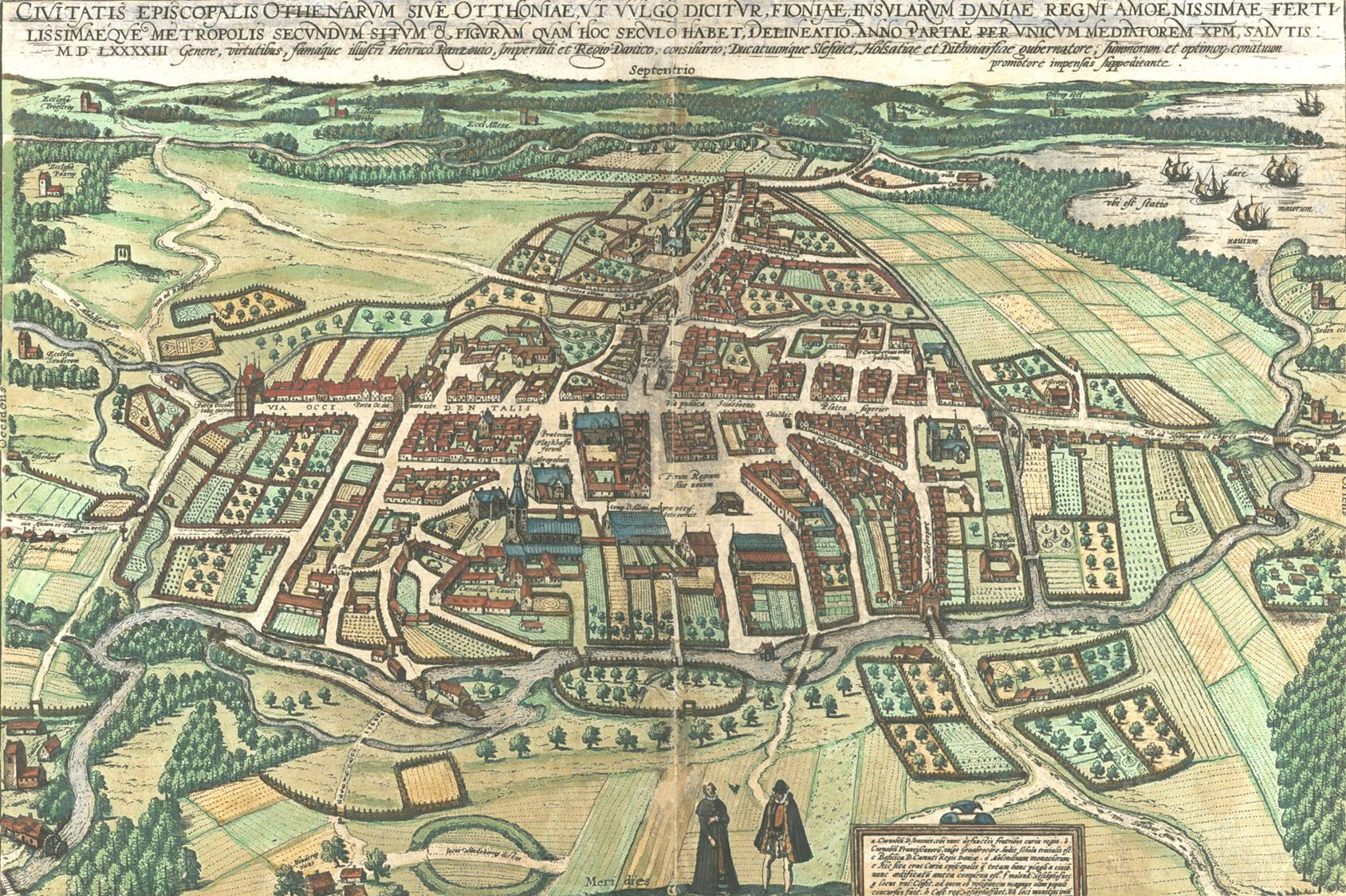 Engraving of Odense from Braun & Hogenberg: Civitates Orbis Terrarum 1593.